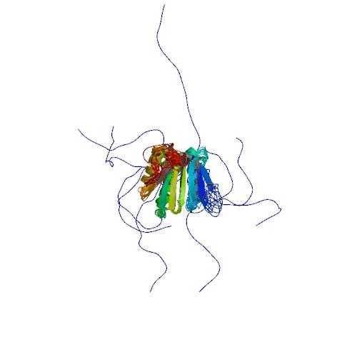 The solution structure of human eIF4E (PDB id: 2gpq)